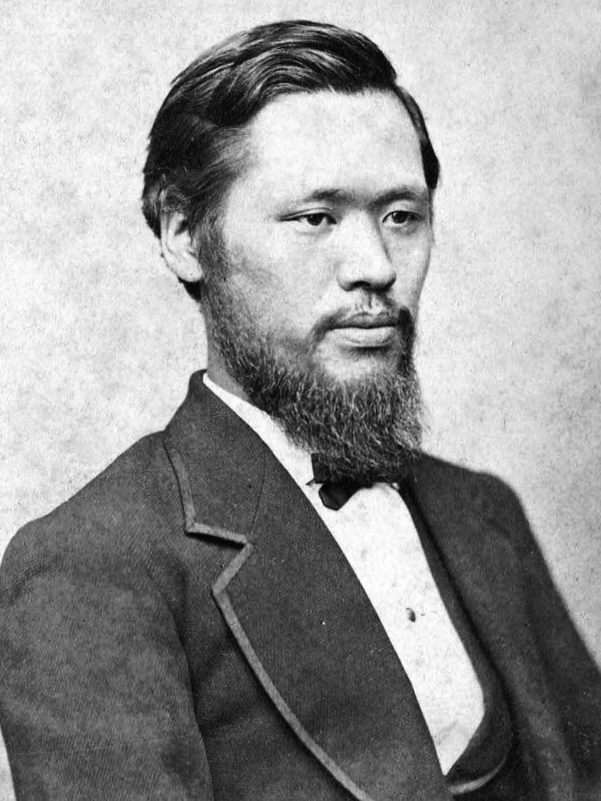 Portrait of Mori Arinori